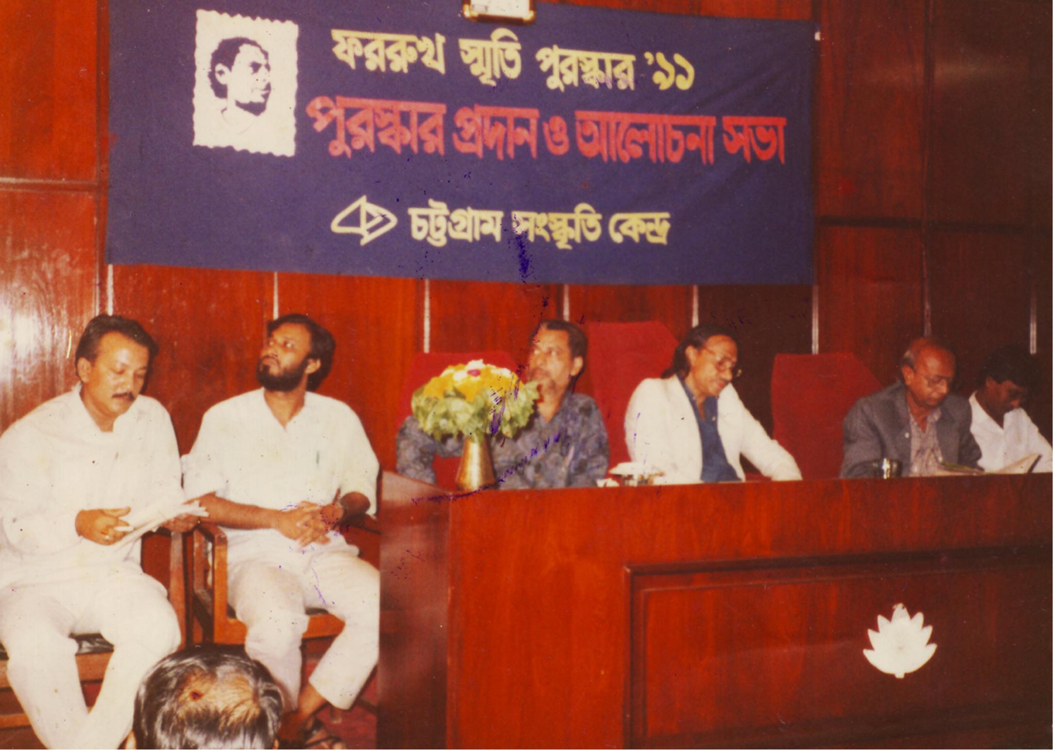 On the occasion of Chattagram Sangskriti Kendro (চট্টগ্রাম সংস্কৃতি কেন্দ্র) 1st Farrukh Memorial Award 1991 (From right to left) Poet Mayukh Chowdhury, Poet Al Mahmood, Awarded Personnel Abdul Mannan Syed, Artist Sabih Ul Alam, CSK President Amirul Islam and Rhymists Muhammad Nasir Uddin are seen on the stage.